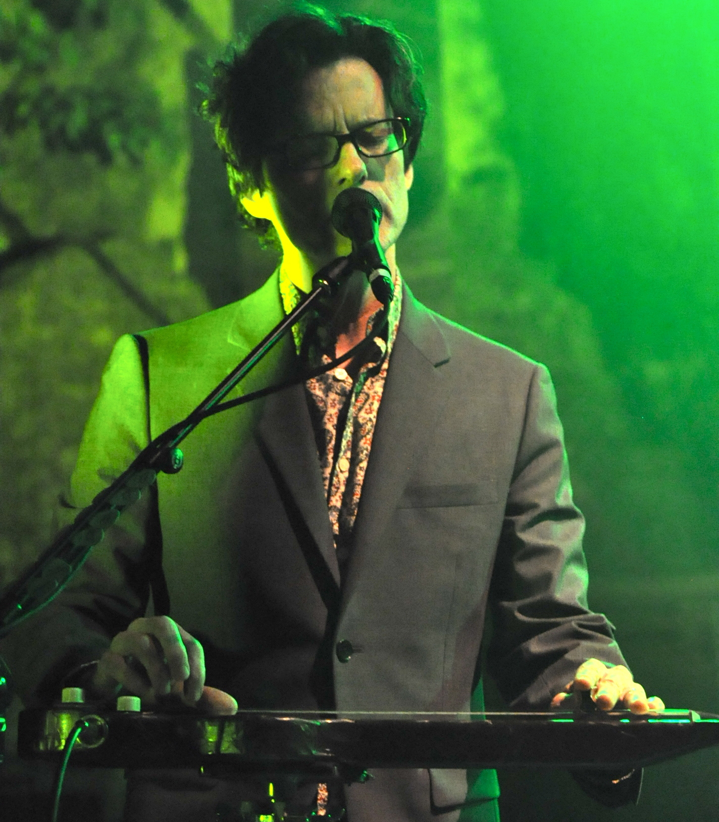 Mark Hart, with Crowded House, 4 September 2010.